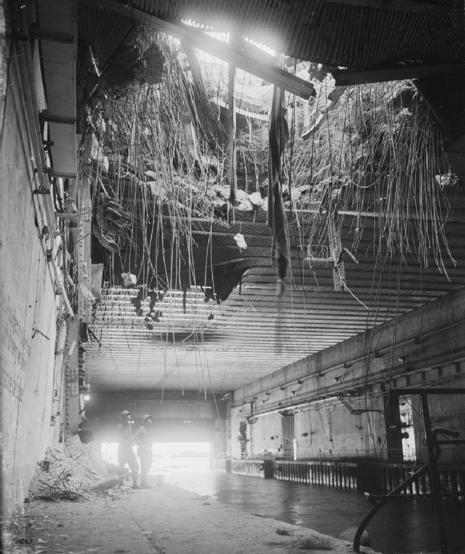 IWM caption : A forty-foot circle hole in the roof of a U-boat pen in Brest which had received a direct hit during the Allied bombardment. The capture of the deep water ports of Brittany did not greatly help the Allies, however, since the Germans had, as in Cherbourg, carried out thorough demolition of the port facilities before surrendering.